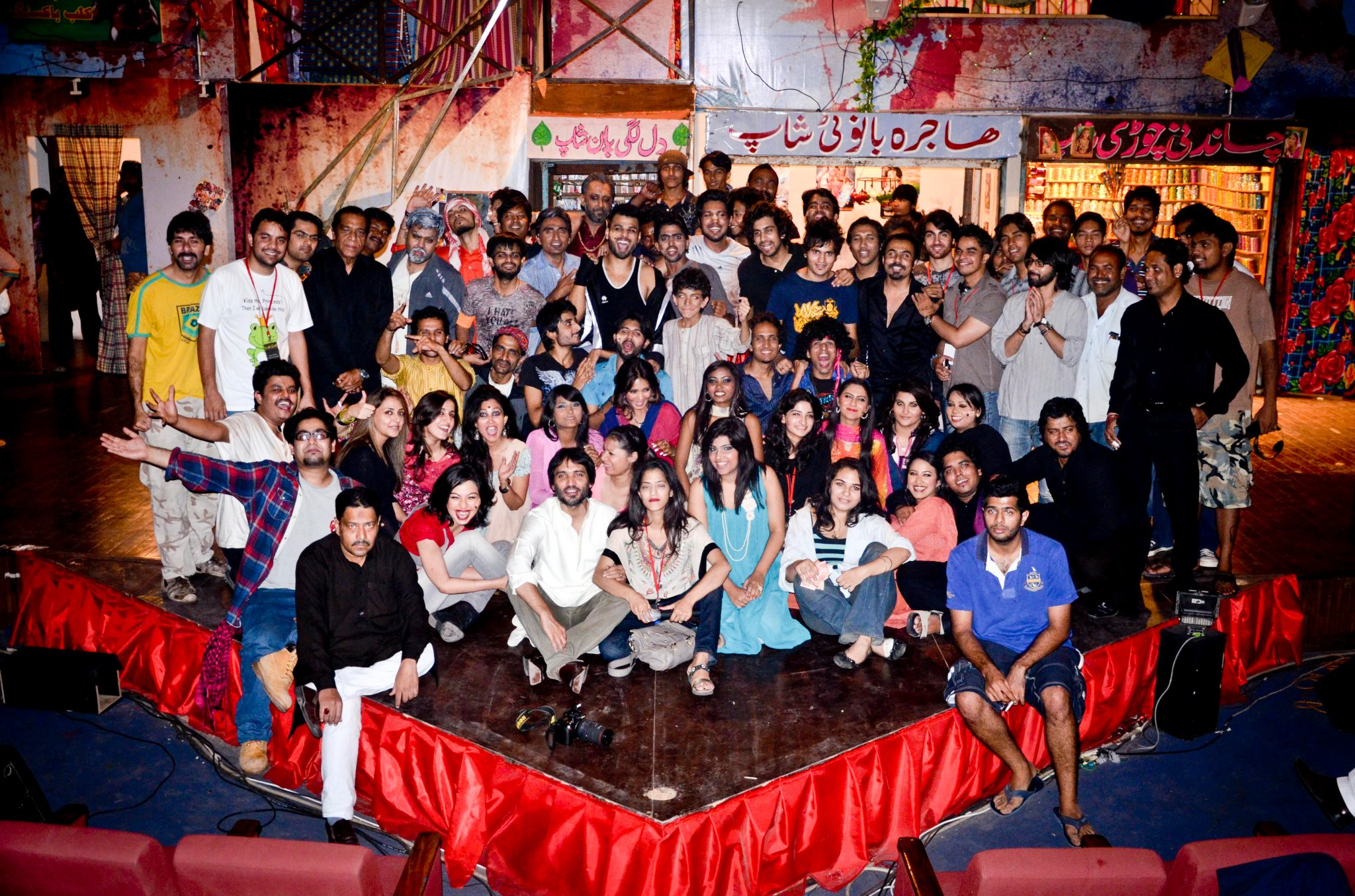 Director / Writer Production team, Cast Crew, Dancers, Live Band Performers, Stage Management Team